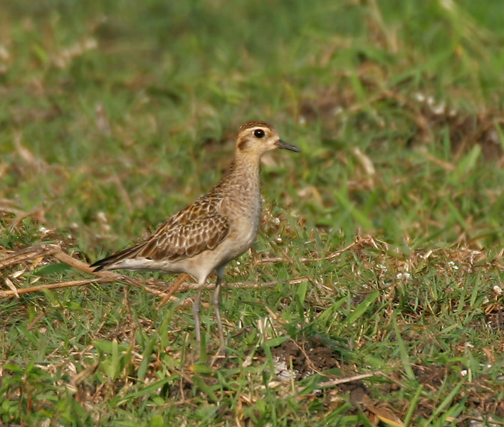 Pacific Golden Plover Pluvialis fulva in Kolleru, Andhra Pradesh, India.